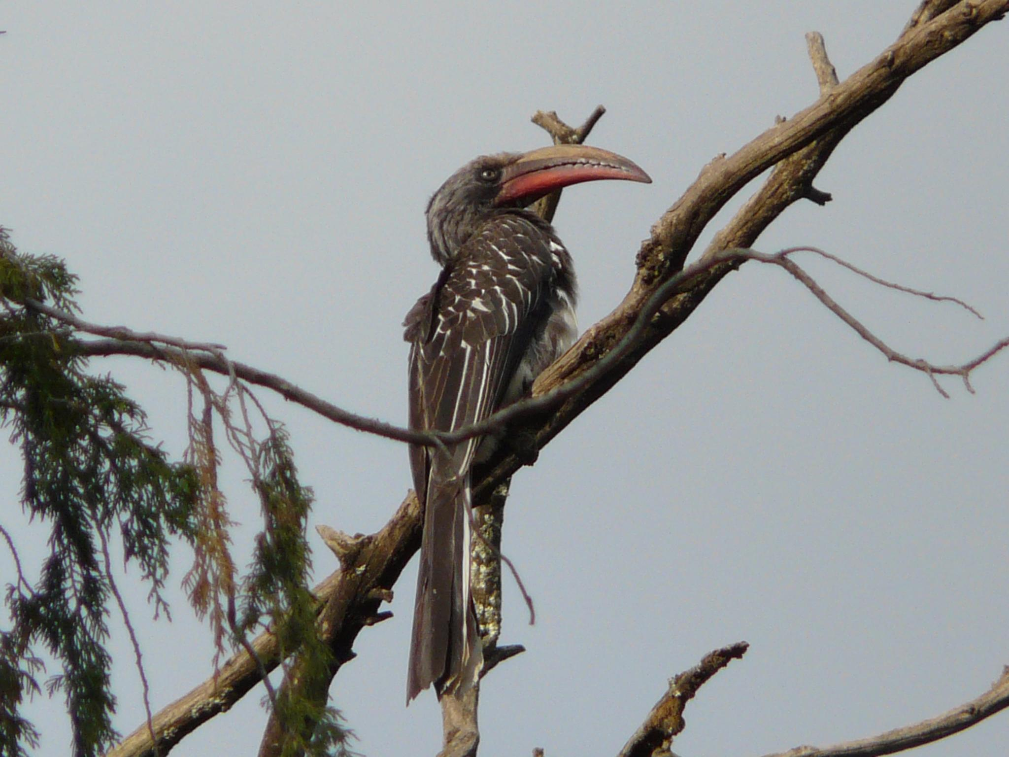 A Hemprich's Hornbill in Ethiopia.